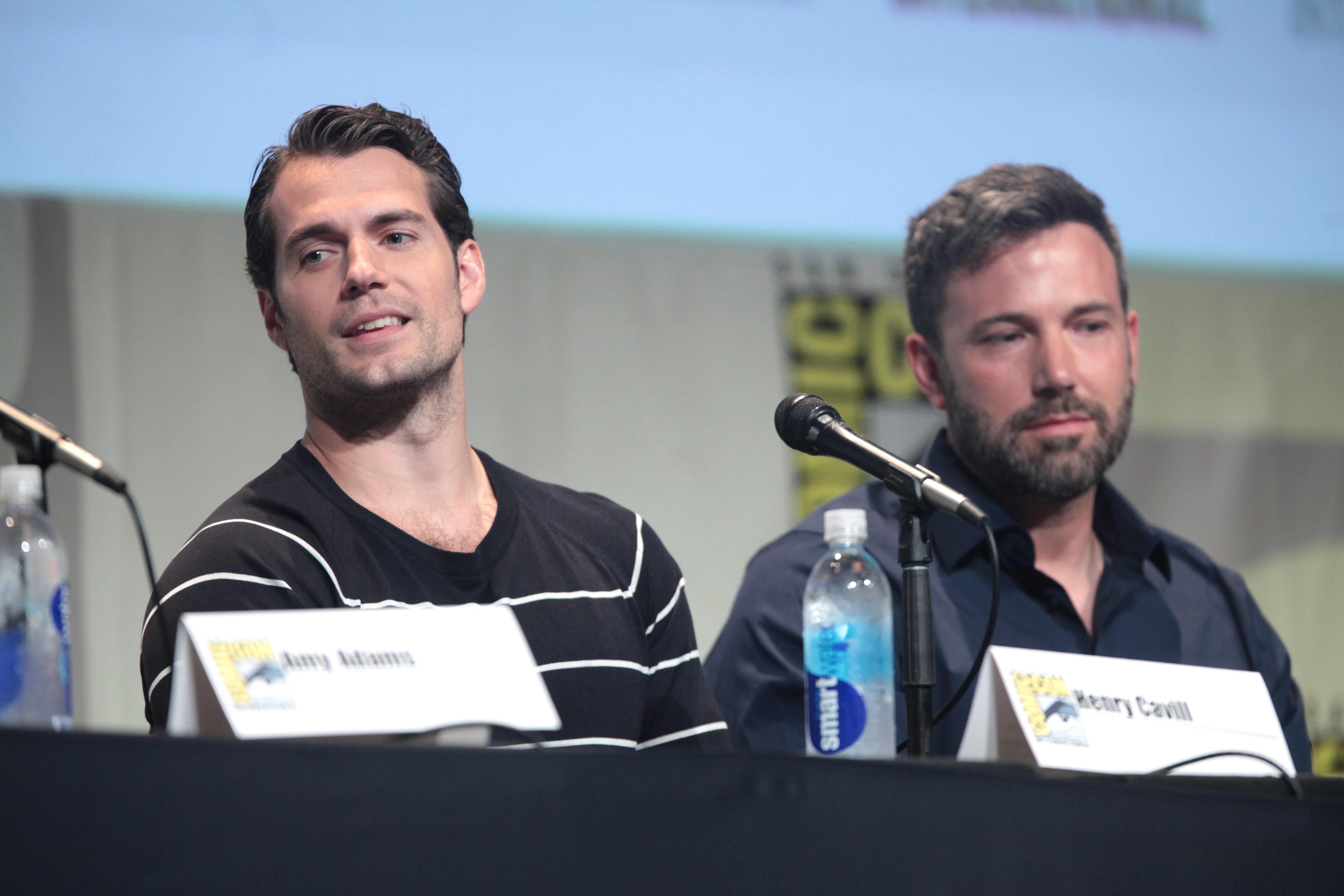 Henry Cavill and Ben Affleck speaking at the 2015 San Diego Comic Con International, for "Batman v Superman: Dawn of Justice", at the San Diego Convention Center in San Diego, California.